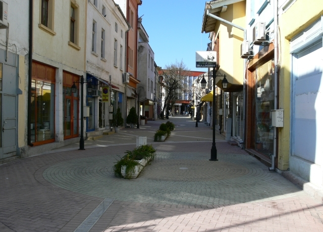 Haskovo, Bulgaria